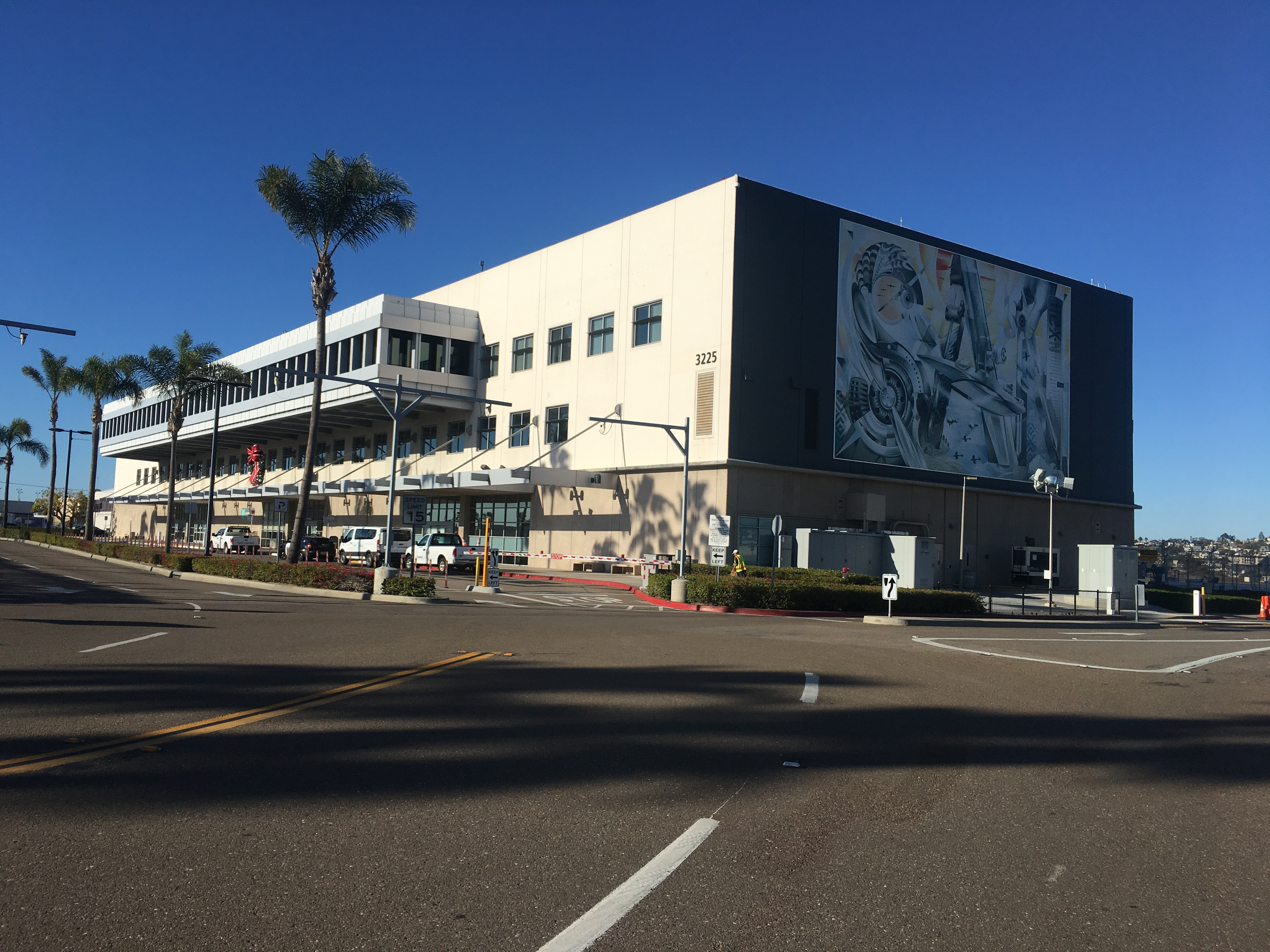 San Diego International Airport's former Commuter Terminal now houses administrative offices for the San Diego County Regional Airport Authority (SDCRAA).